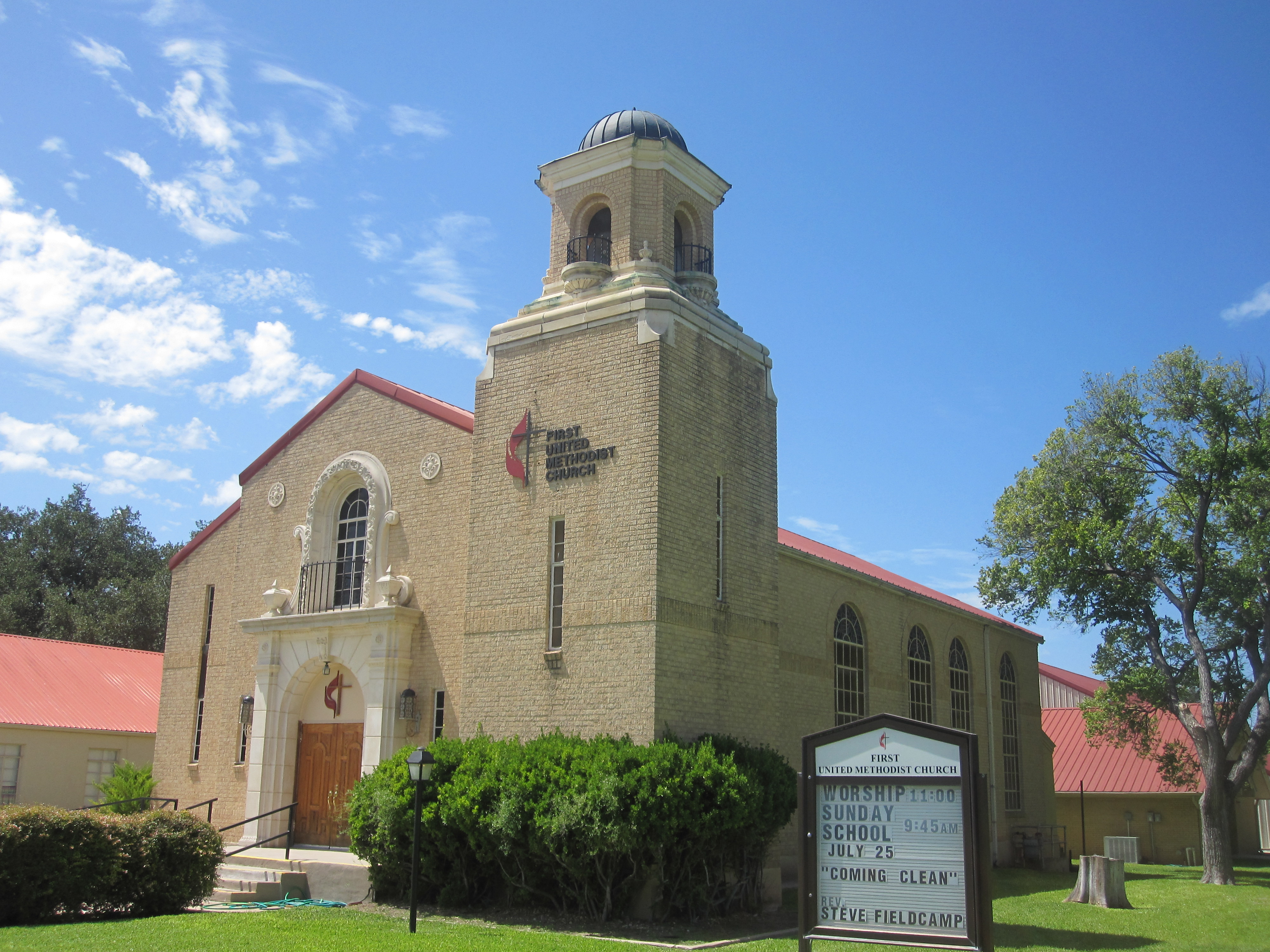 I took photo with Canon camera in Junction, TX.